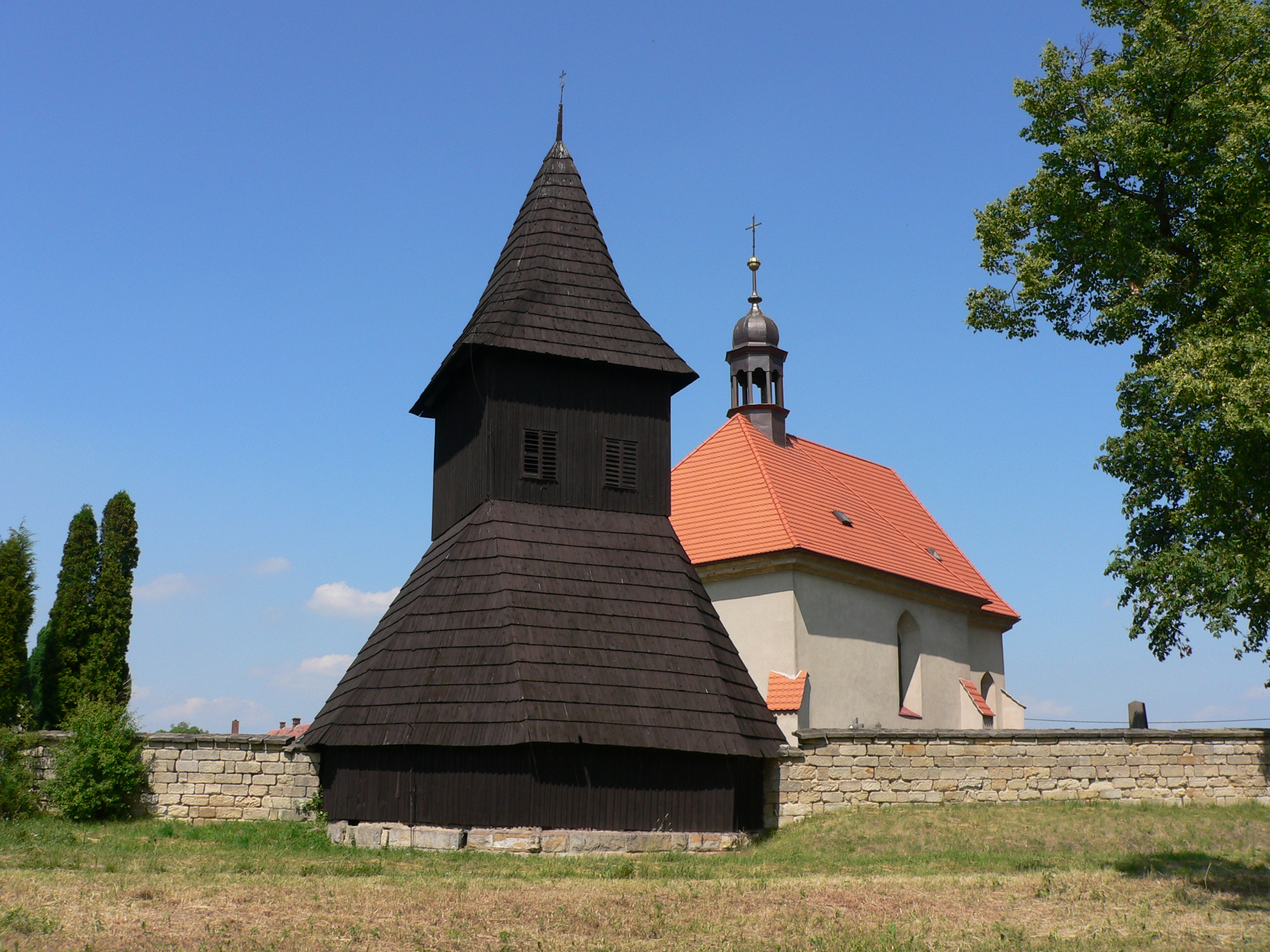 Psinice - wooden campanile built in 1600.